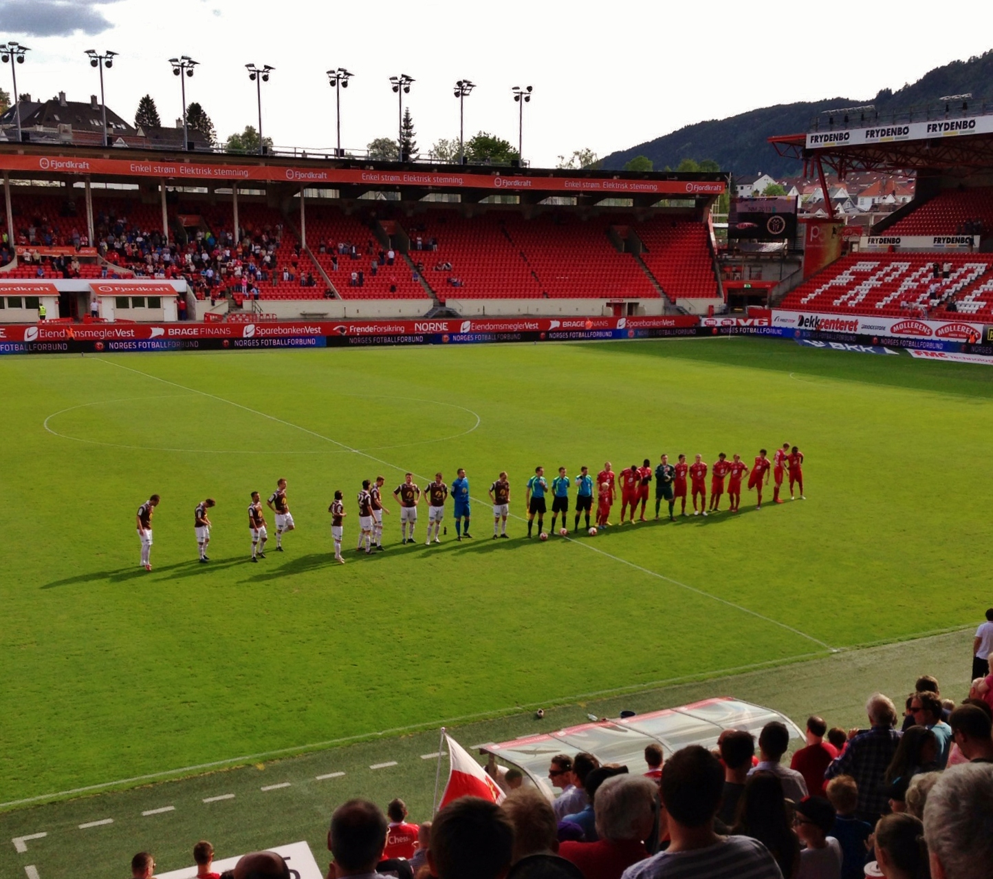 Brann vs. Mjøndalen (1-2). Third round in the Norwegian Cup 2013. Brann Stadium, Bergen.